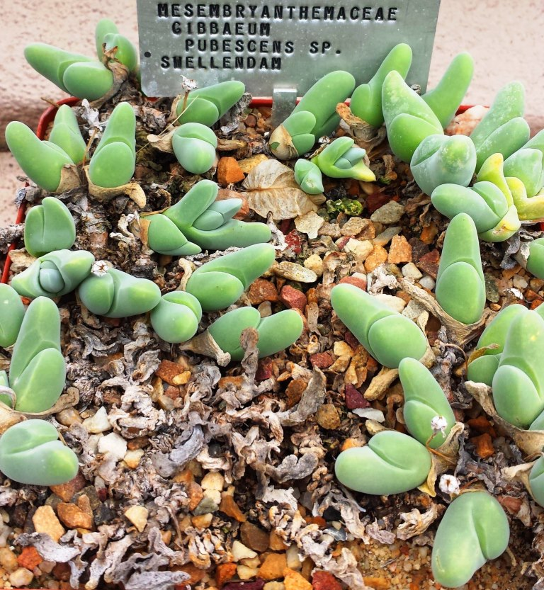 Gibbaeum pubescens - Swellendam - RSA